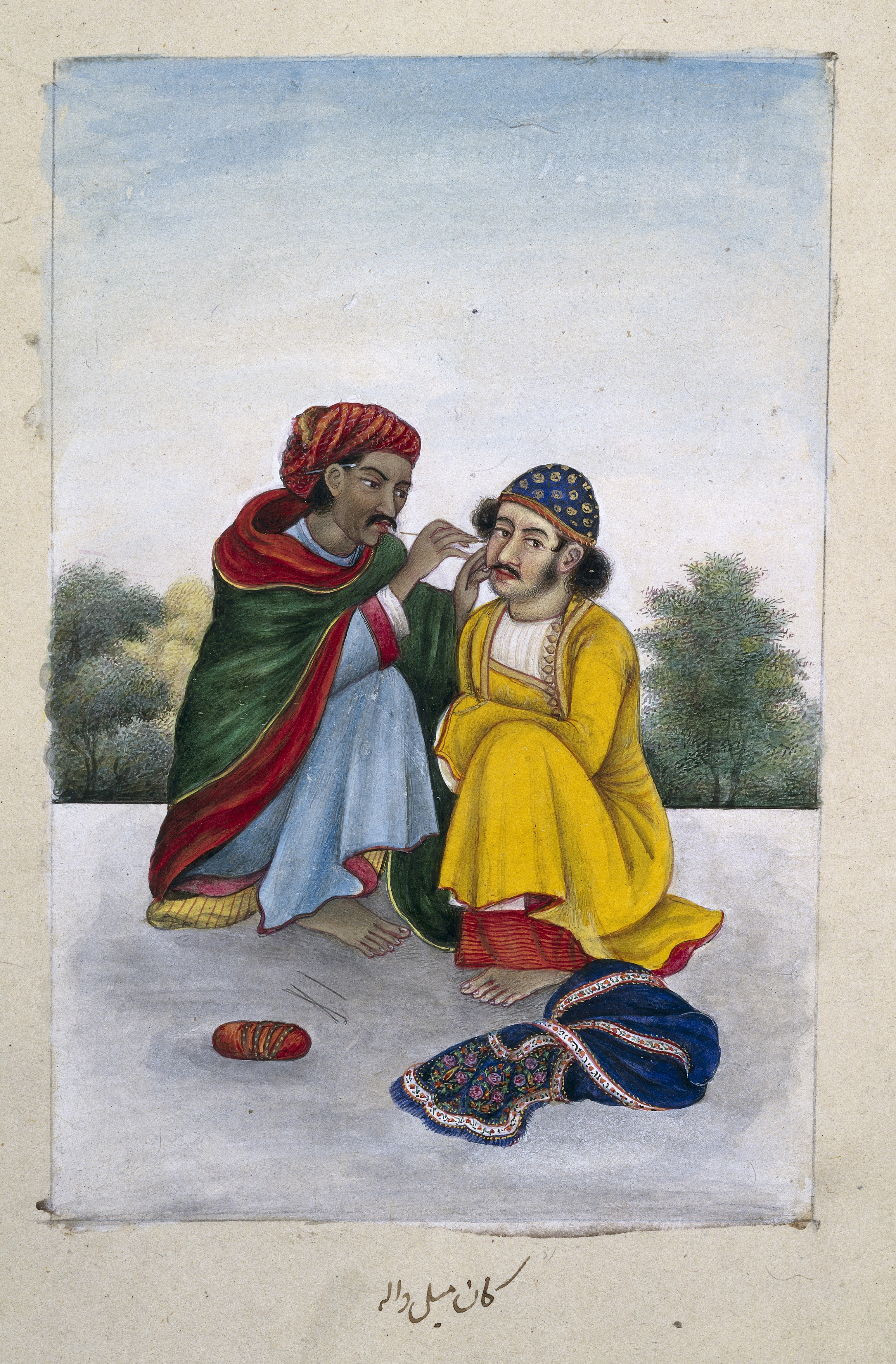 An ear cleaner at work; by an unnamed Dehli painter, commissioned by Colonel James Skinner Iconographic Collections Keywords: Hygiene; India; Colonel James Skinner